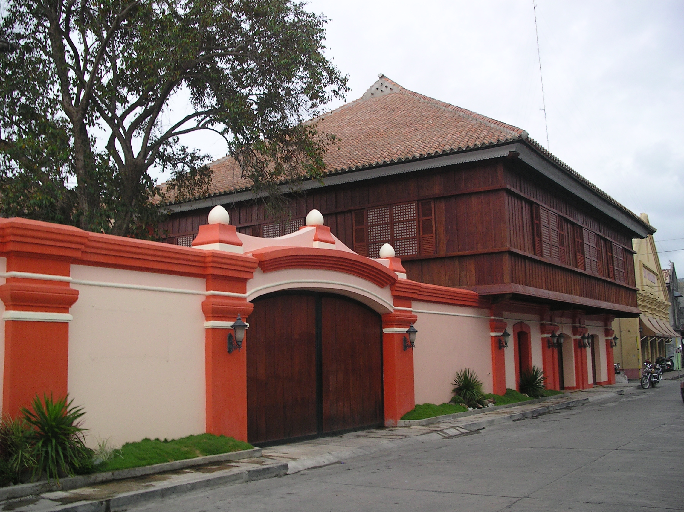 i took the picture